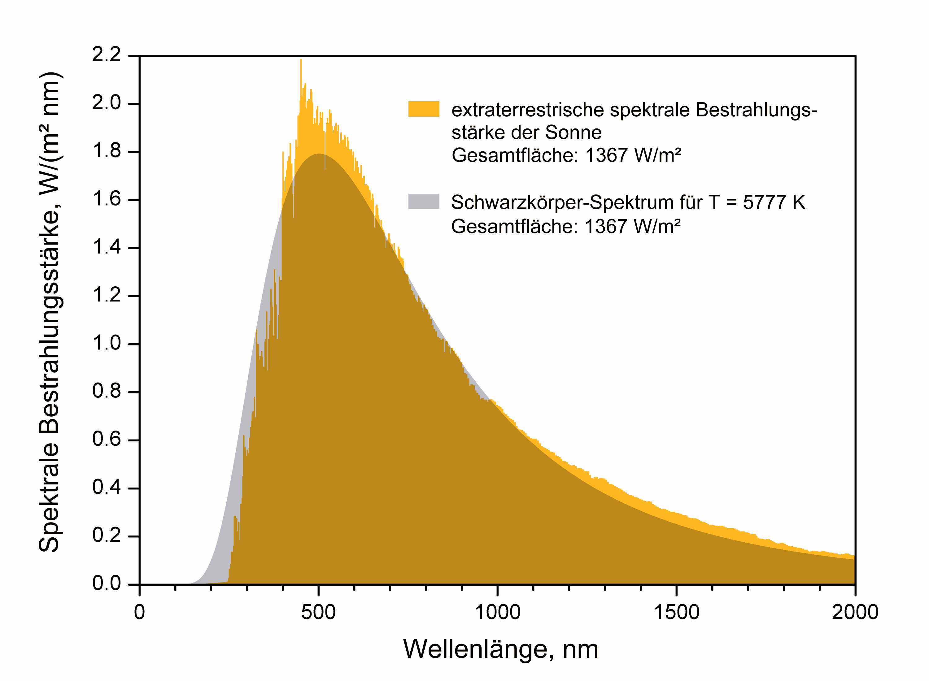 The effective temperature, or blackbody temperature, of the Sun (5777 K) is the temperature a black body of the same size must have to yield the same total emissive power.